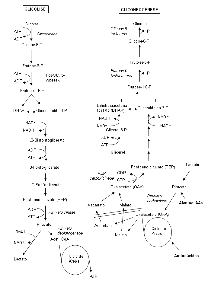 Pathways of glycolysis and gluconeogenesis in the liver.